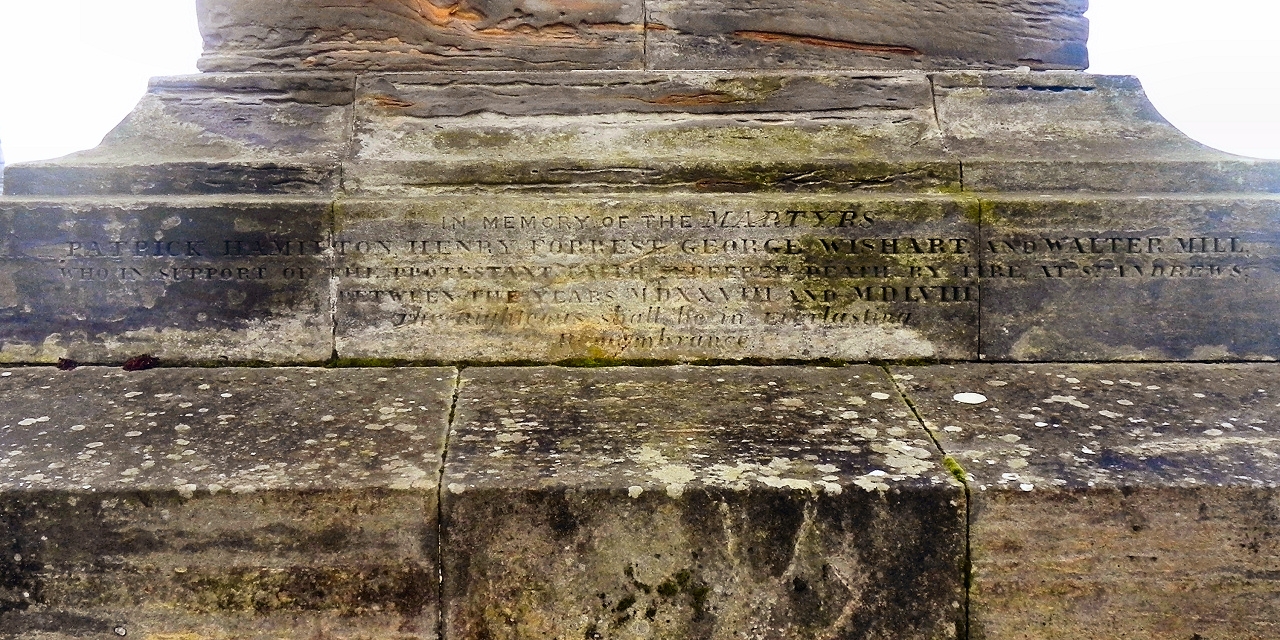 Inscription on the Martyrs' Monument, St Andrews